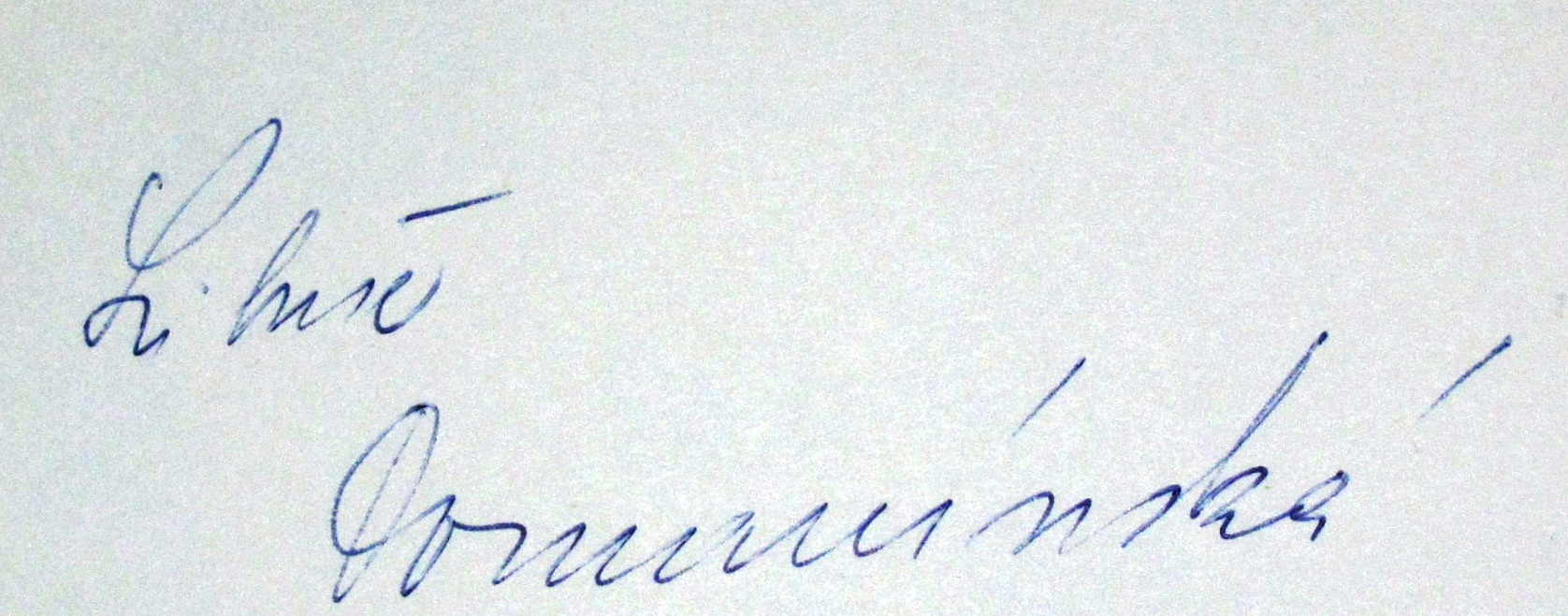 Signature of Libuše Domanínská, Czech operatic soprano (1983)